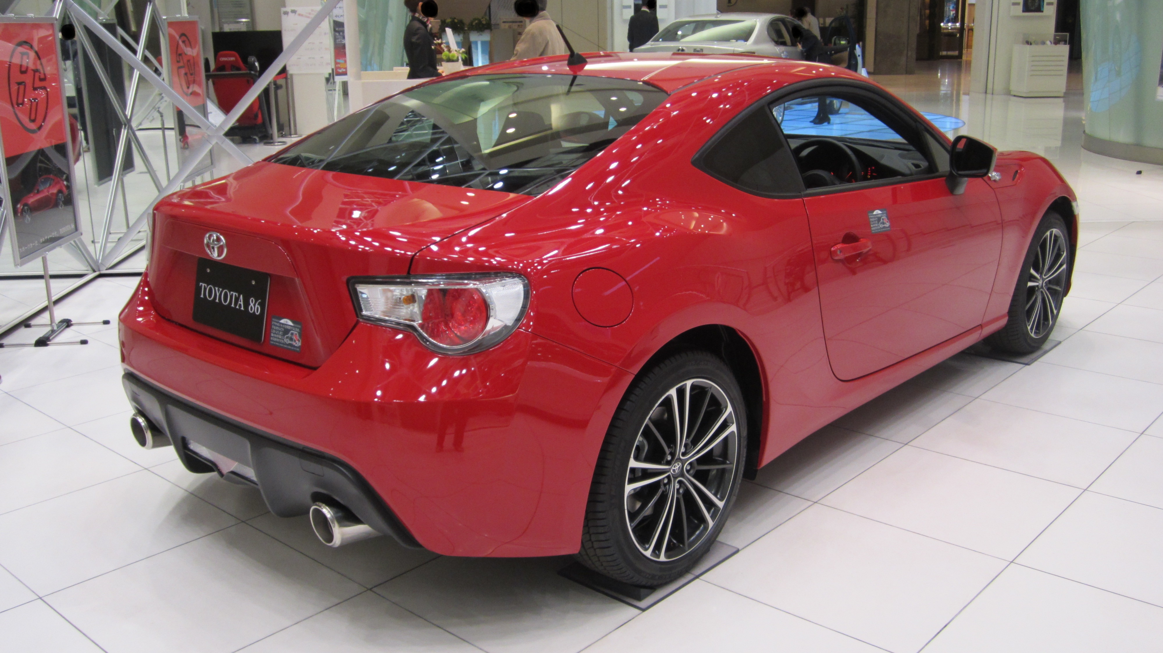 Toyota 86